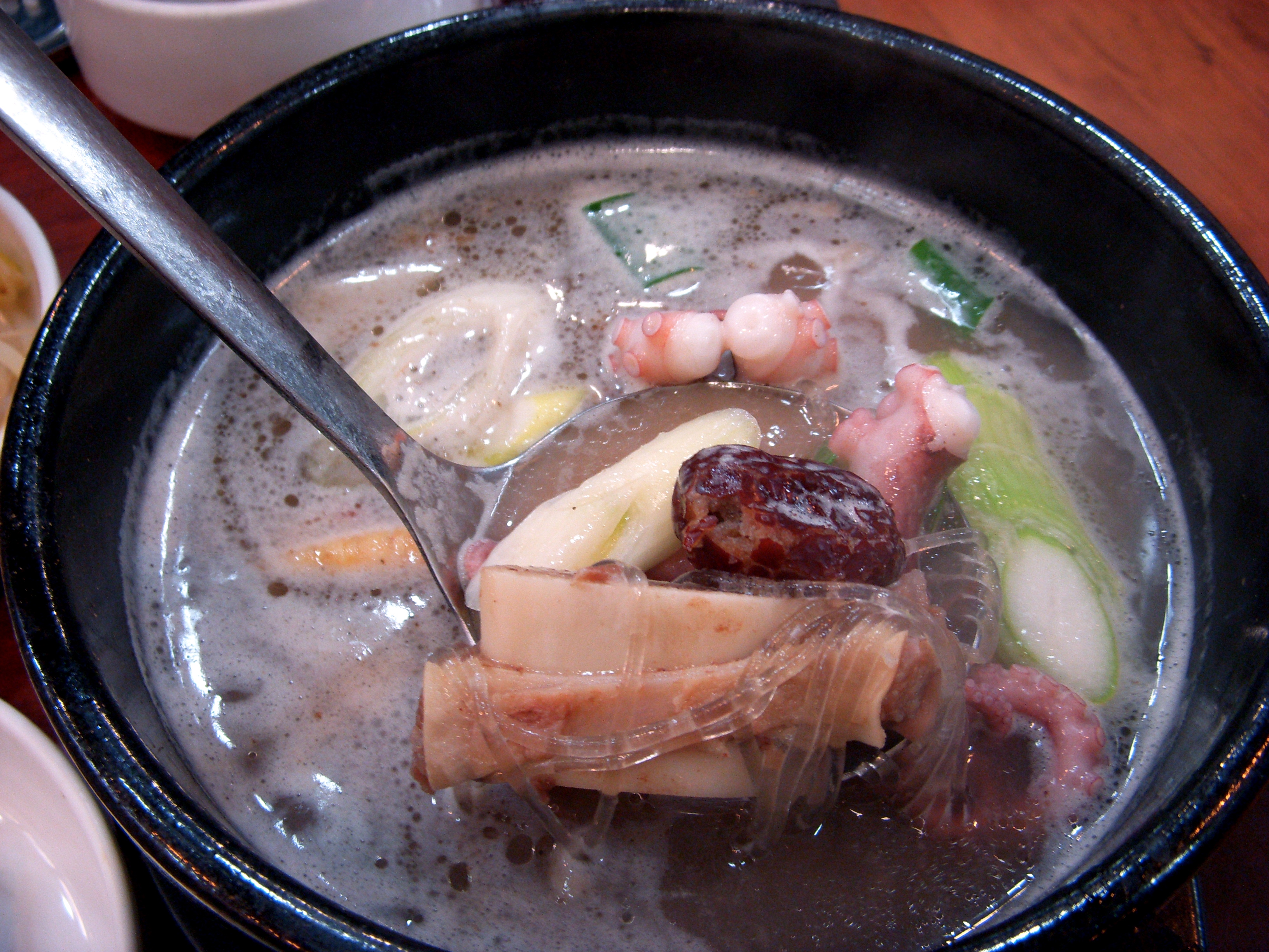 Soup made with octopus and beef rib.